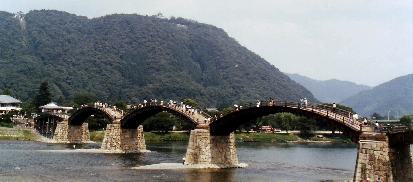 photo of Kintai-bridge(Kintai-kyo) and Iwakuni castle